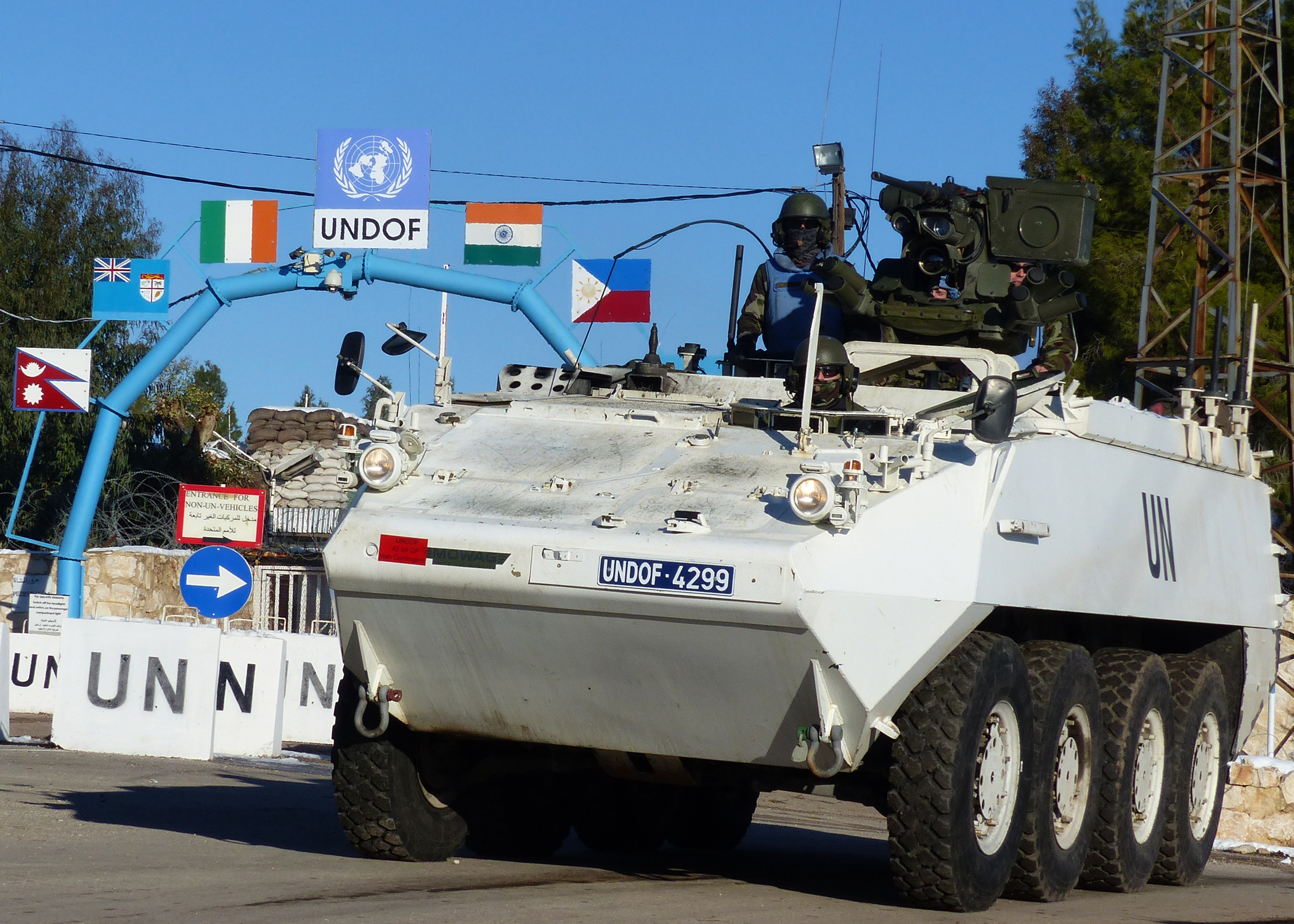 Close Reconnaissance Vehicles on patrol UNDOF in Syria, Camp Faouar is based in the village of Faouar on the Golan Heights.